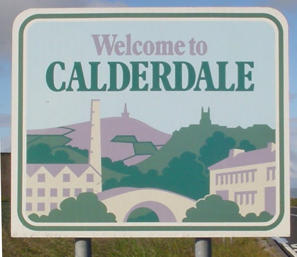 Signpost in Calderdale